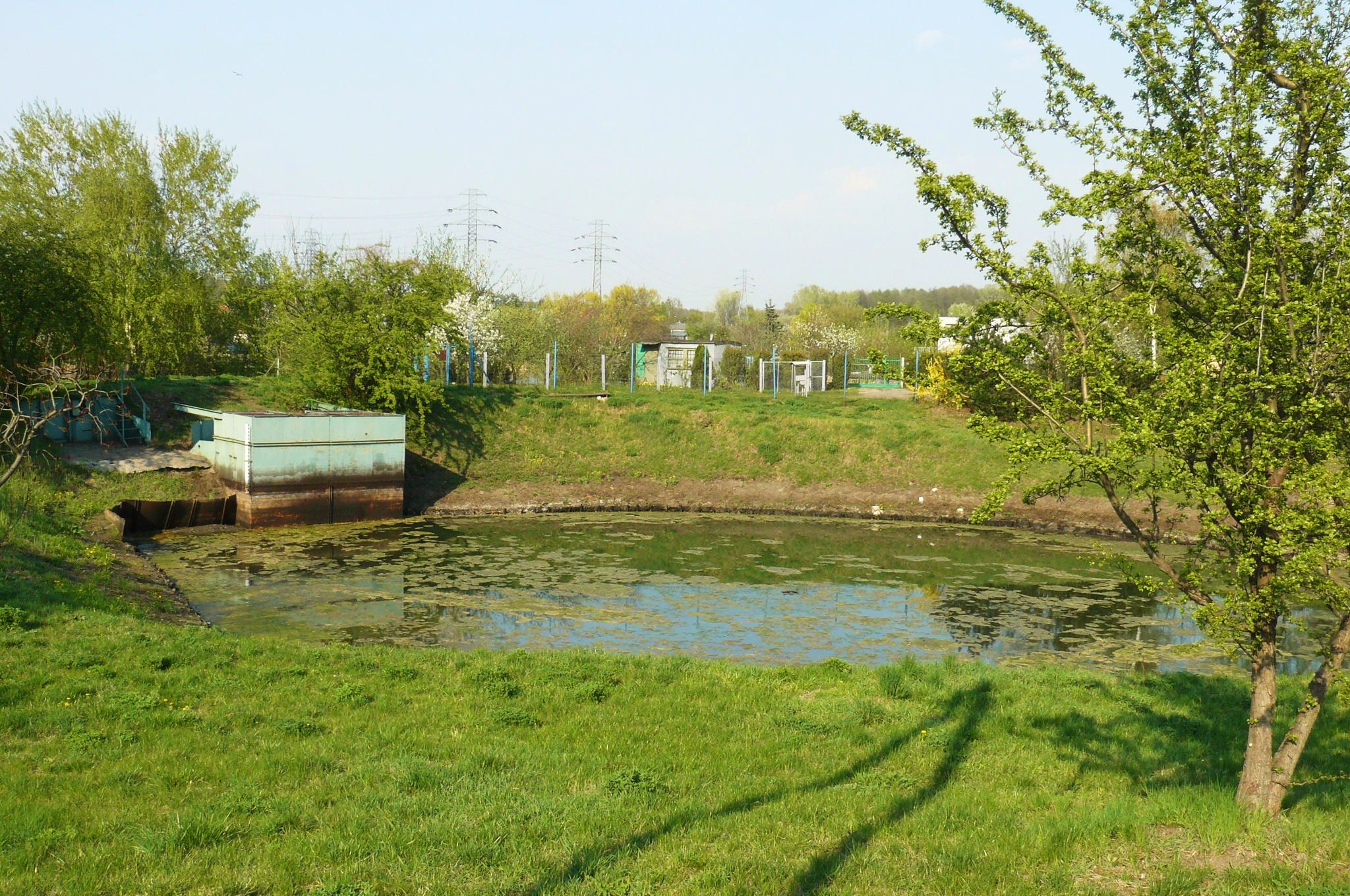 Kajka Pond (Little), Poznan, Gnieznienska Street.